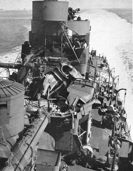 The U.S. Navy destroyer USS Nicholas (DD-449) suffered a hang-fire in No. 53 5"/38cal gun mount on 13 May 1943, while firing on enemy positions on Kolombangara. The gun exploded, with no casualties. This photo shows Nicholas shortly after that event before she was repaired at Nouméa by replacing the gun with one from USS Hutchins (DD-476), newly arrived in the area.